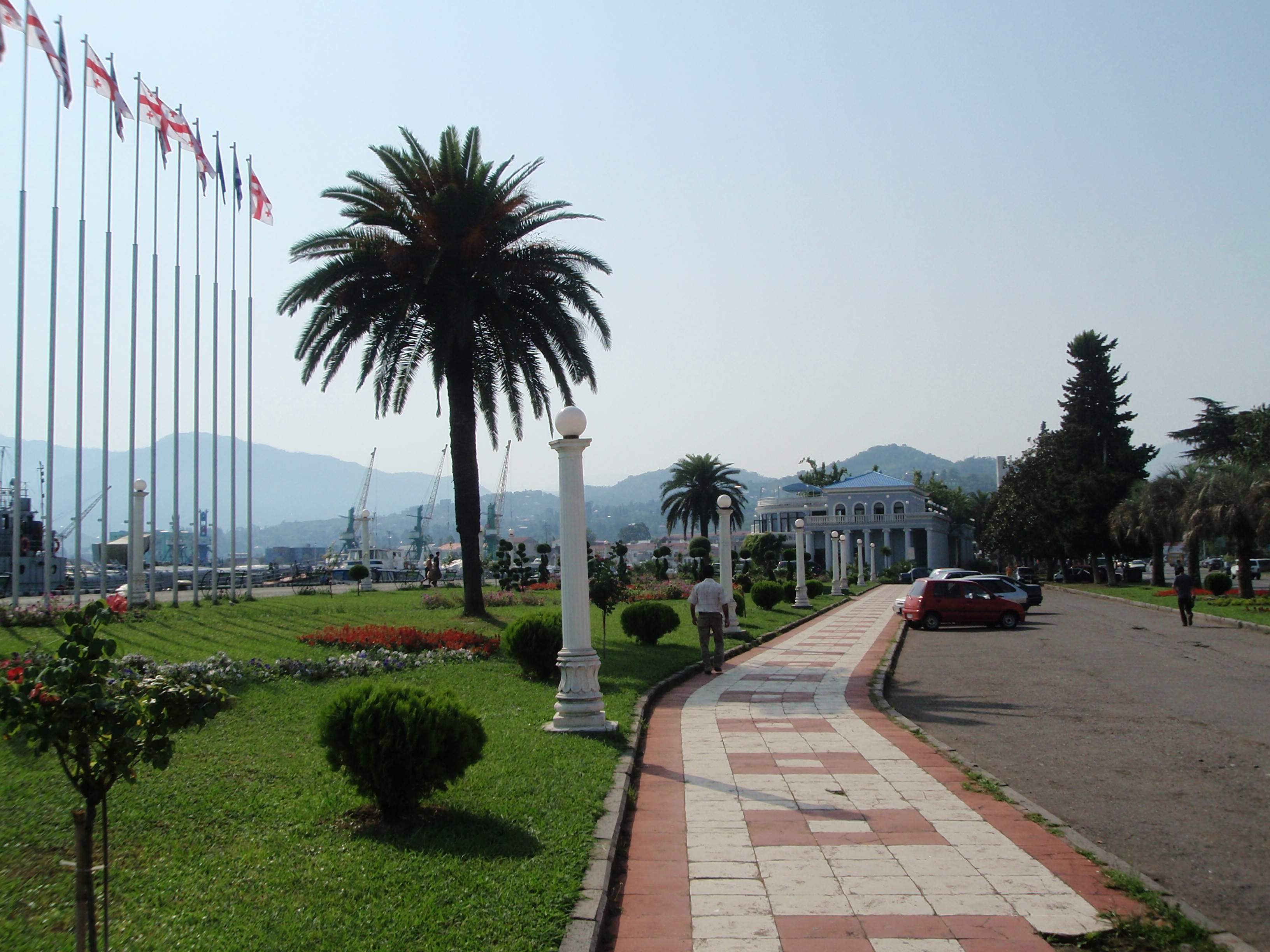 Batumi quay